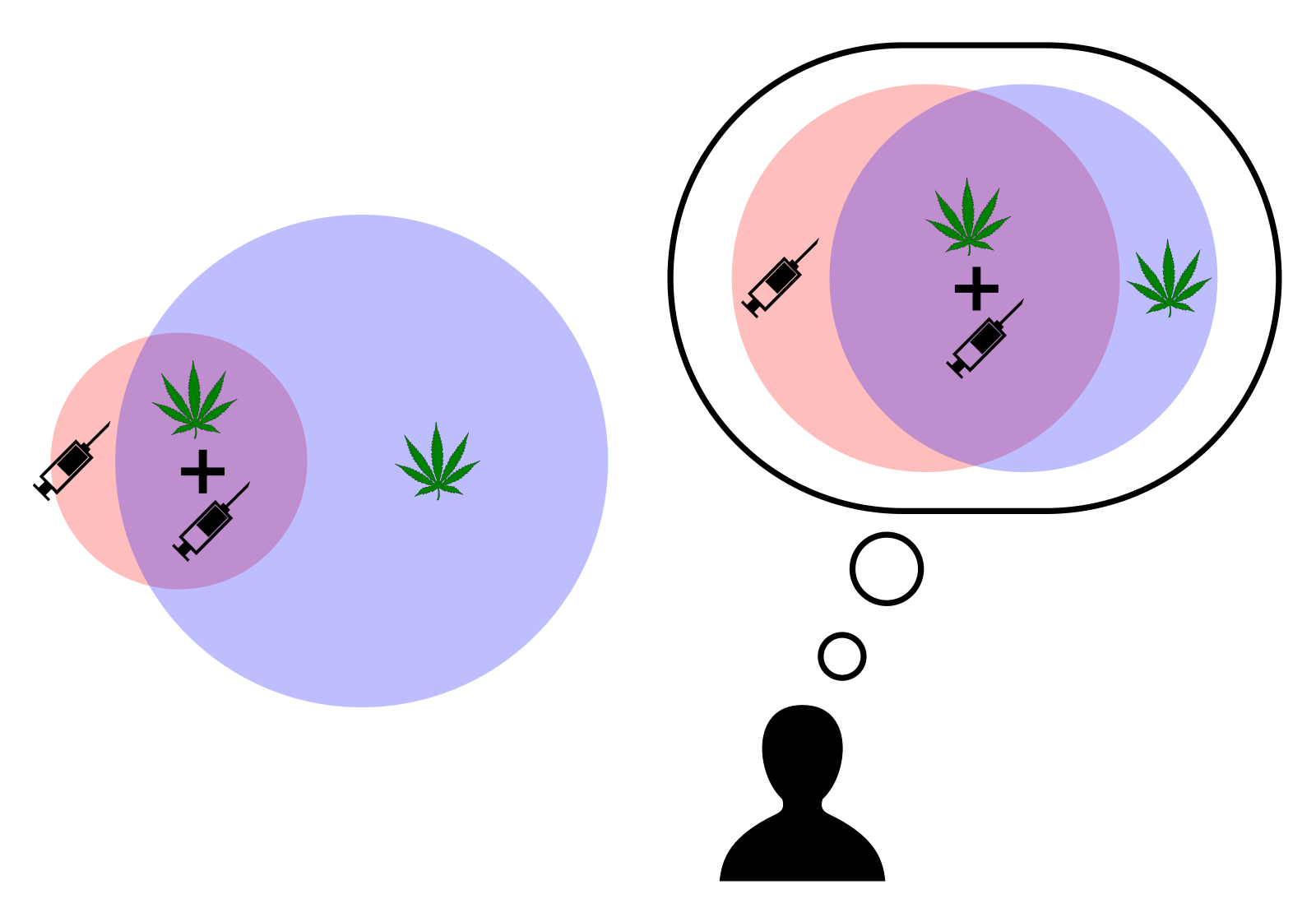 Graphic demonstration of the logical fallacy "Confusion of the Inverse" (example: Gateway drug theory)